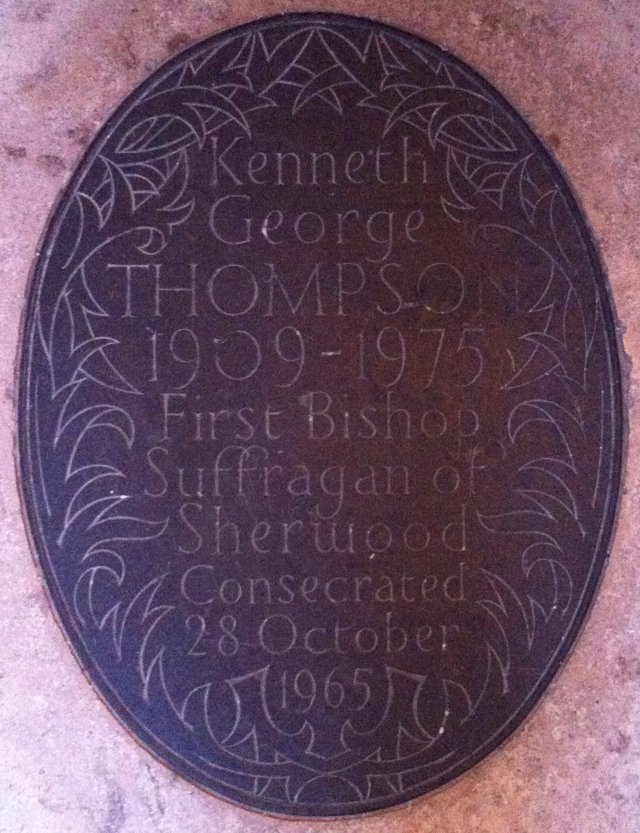 Kenneth George Thompson 1909 - 1975, First Bishop Suffragan of Sherwood. Consecrated 28 October 1965.